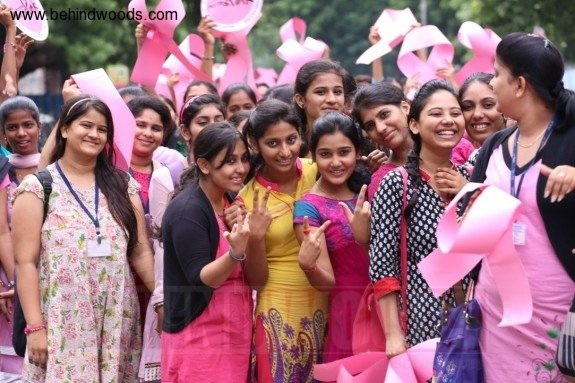 Pink Ribbon Walk